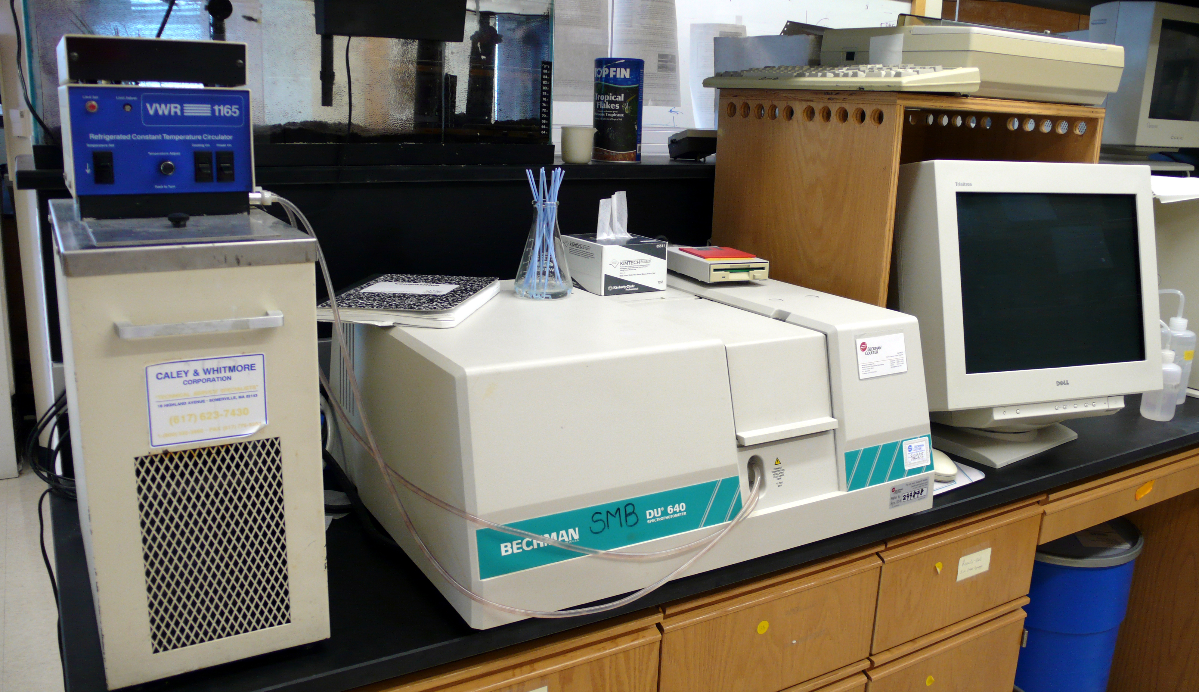 Temperature-controlled Beckman DU640 spectrophotometer